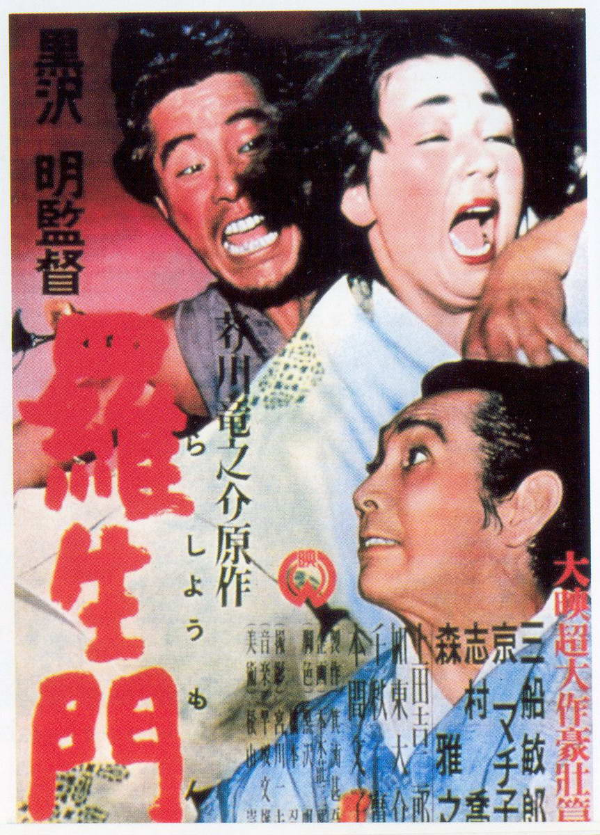 Theatrical release poster for 1950 Japanse movie Rashomon.